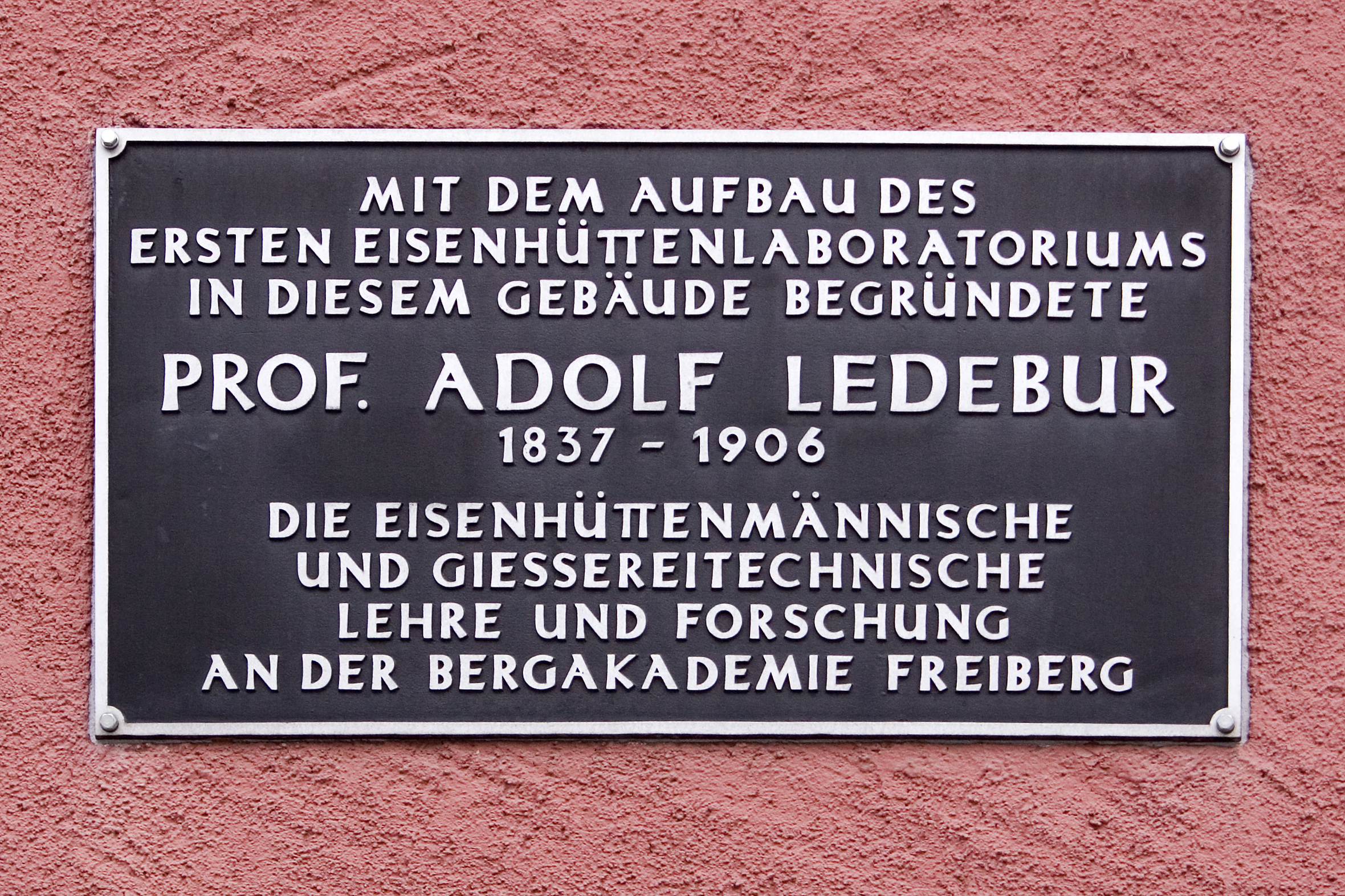 Adolf Ledebur, commemorative plaque on his working place in Freiberg, Brennhausgasse 8